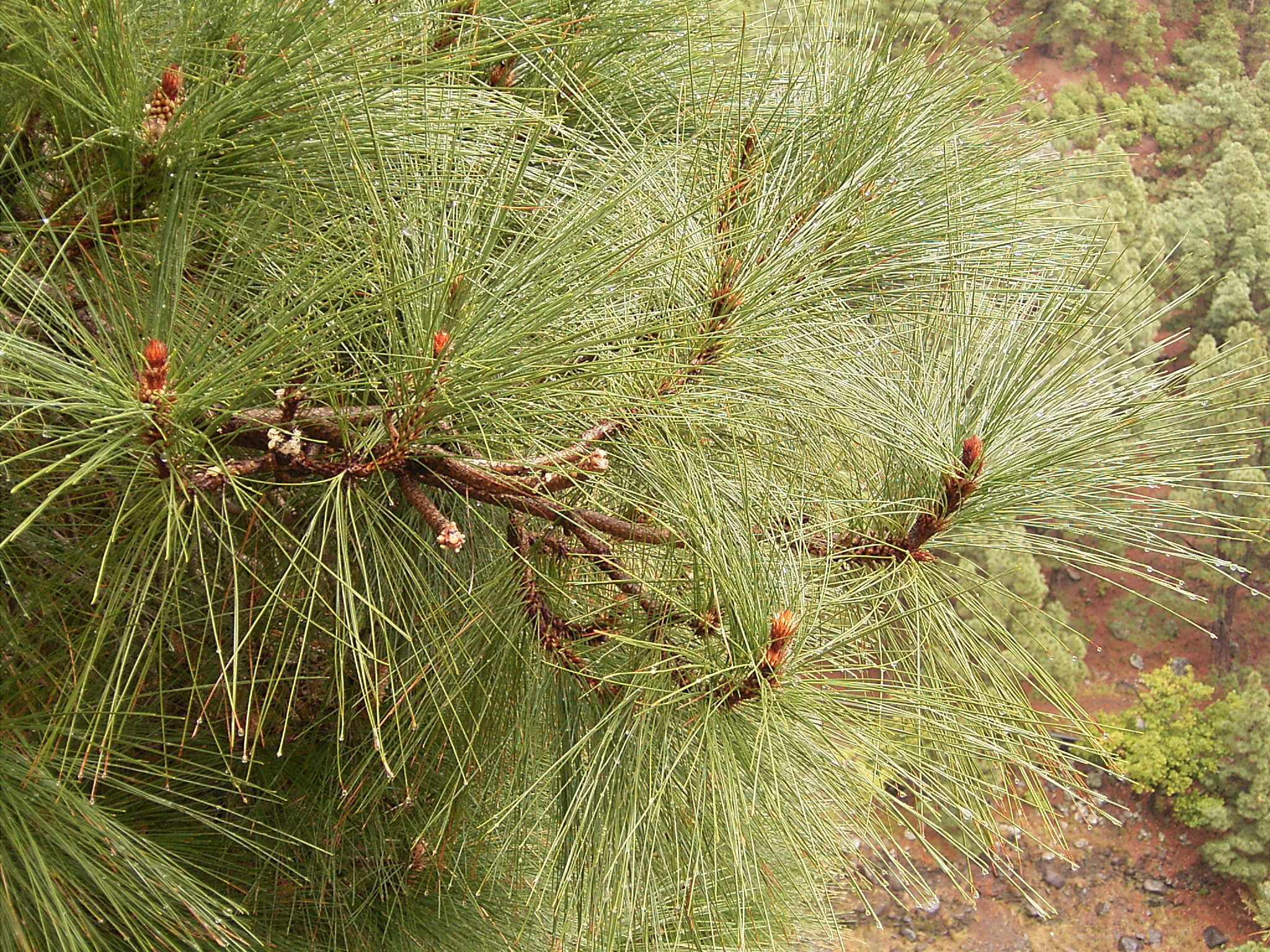 Pinus canariensis growing in Barlovento, La Palma, Canary Islands